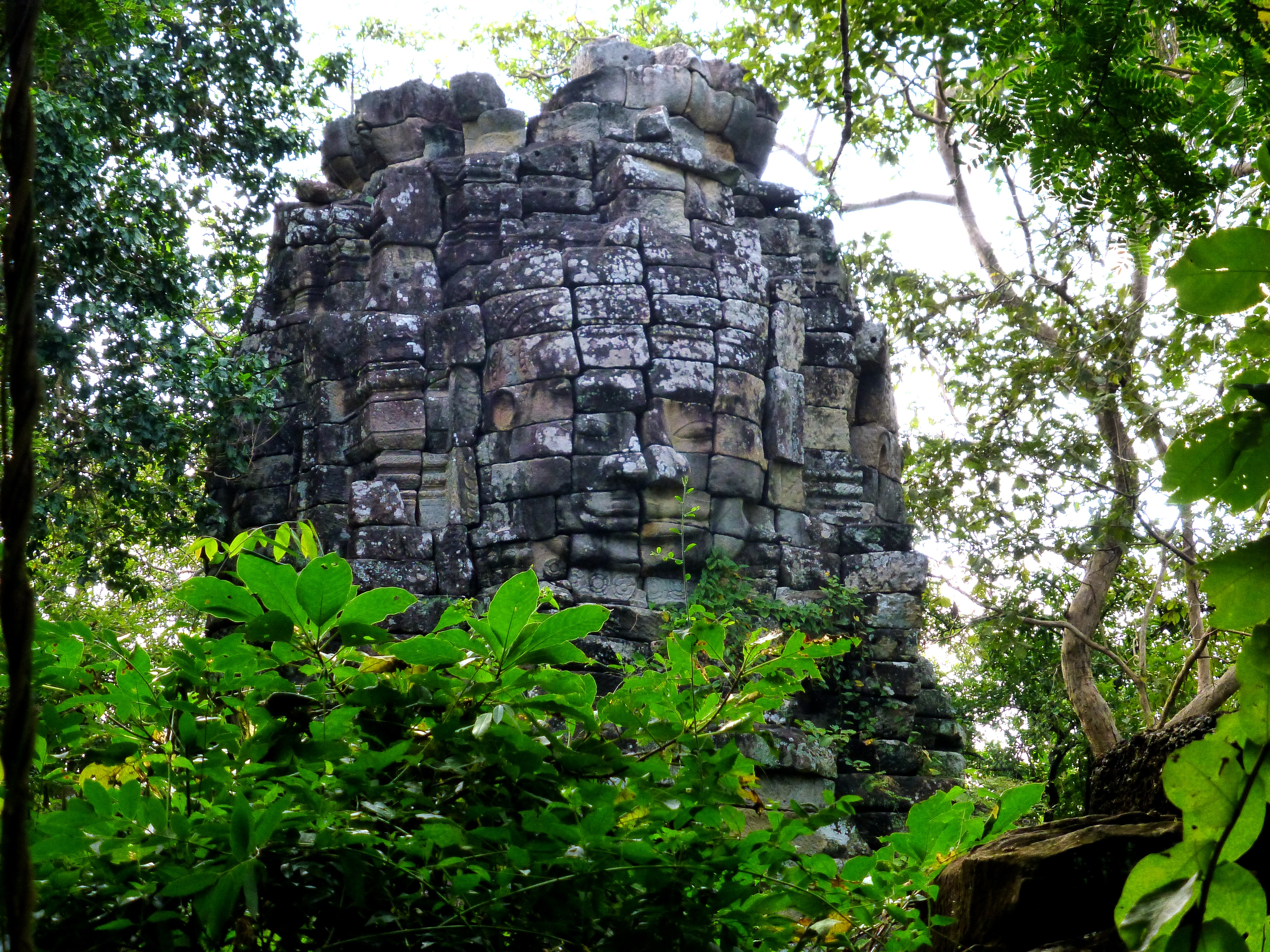 001 Facetower, Samnang Tasok at Banteay Chhmar Photograph from Banteay Chhmar in north-west Cambodia taken by Anandajoti.